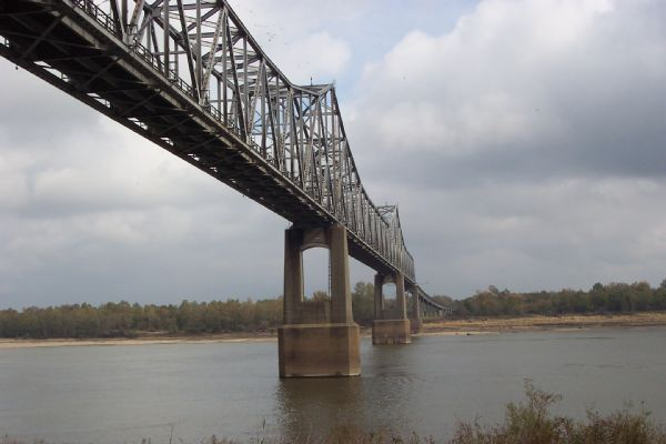 A picture of the Benjamin G. Humphreys Bridge by John Weeks.